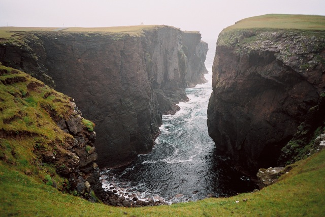 Calder's Geo Shetland coastal erosion resulting from submergence of the land coupled with frequent strong winds which has produced narrow openings in the cliffs along joints or faults.